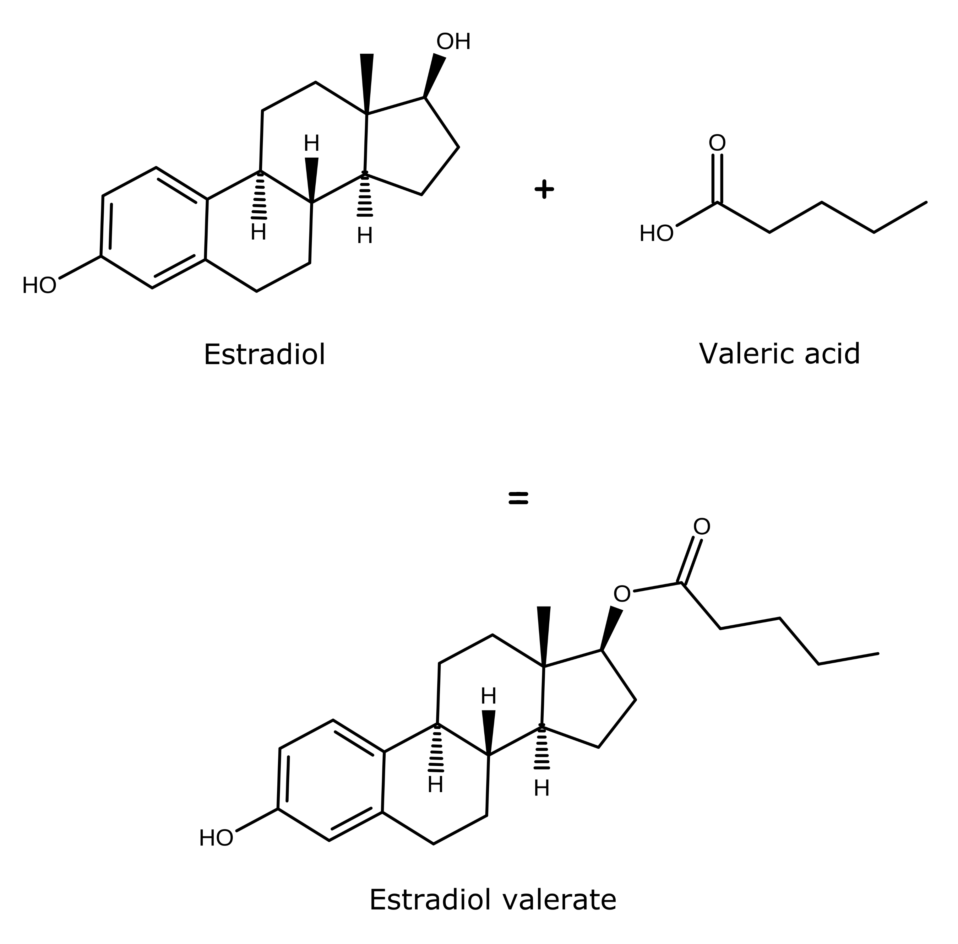 Made using Marvin JS and Pixlr Editor.